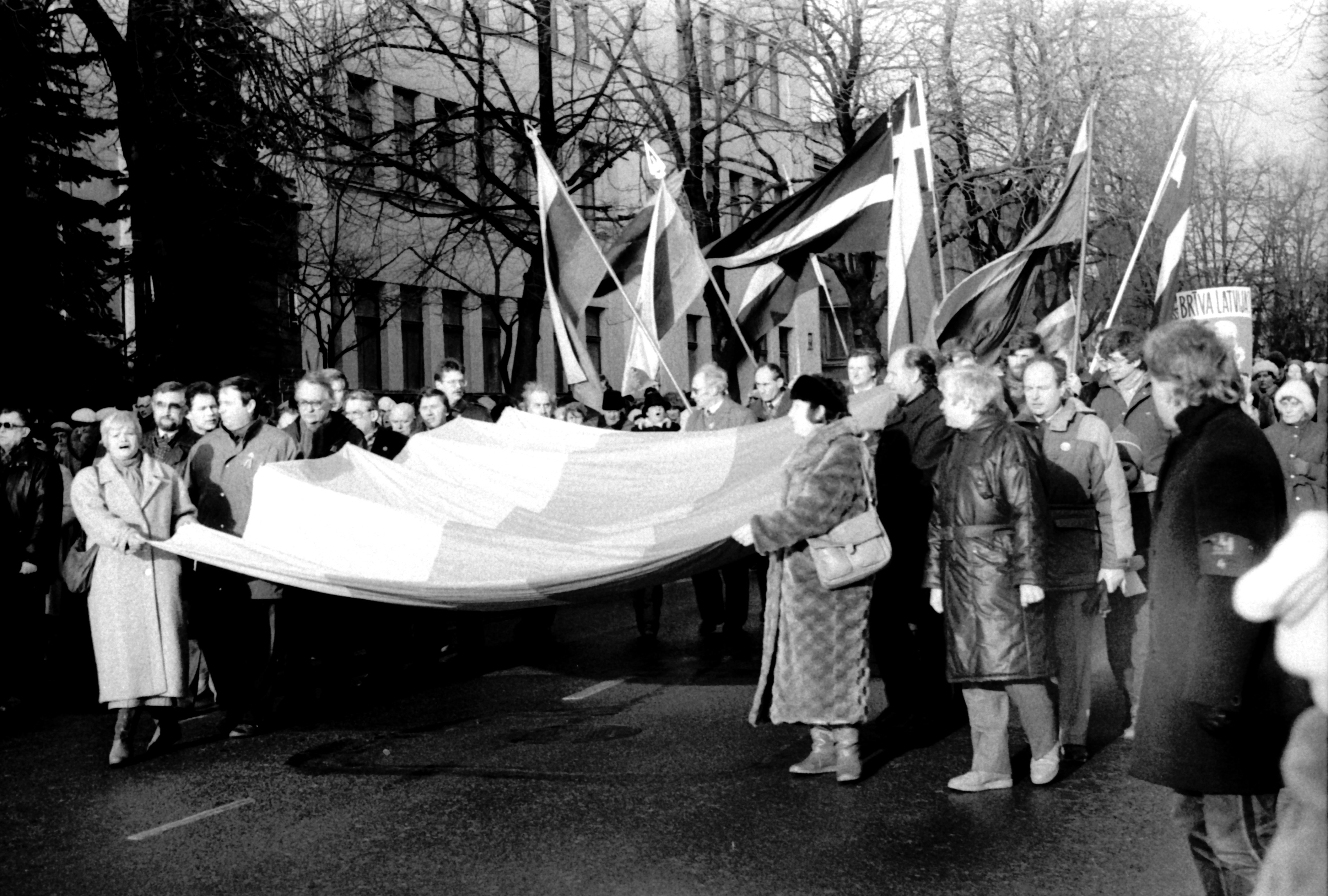 Hoisting of a Lithuanian flag in Šiauliai, 1989-02-16